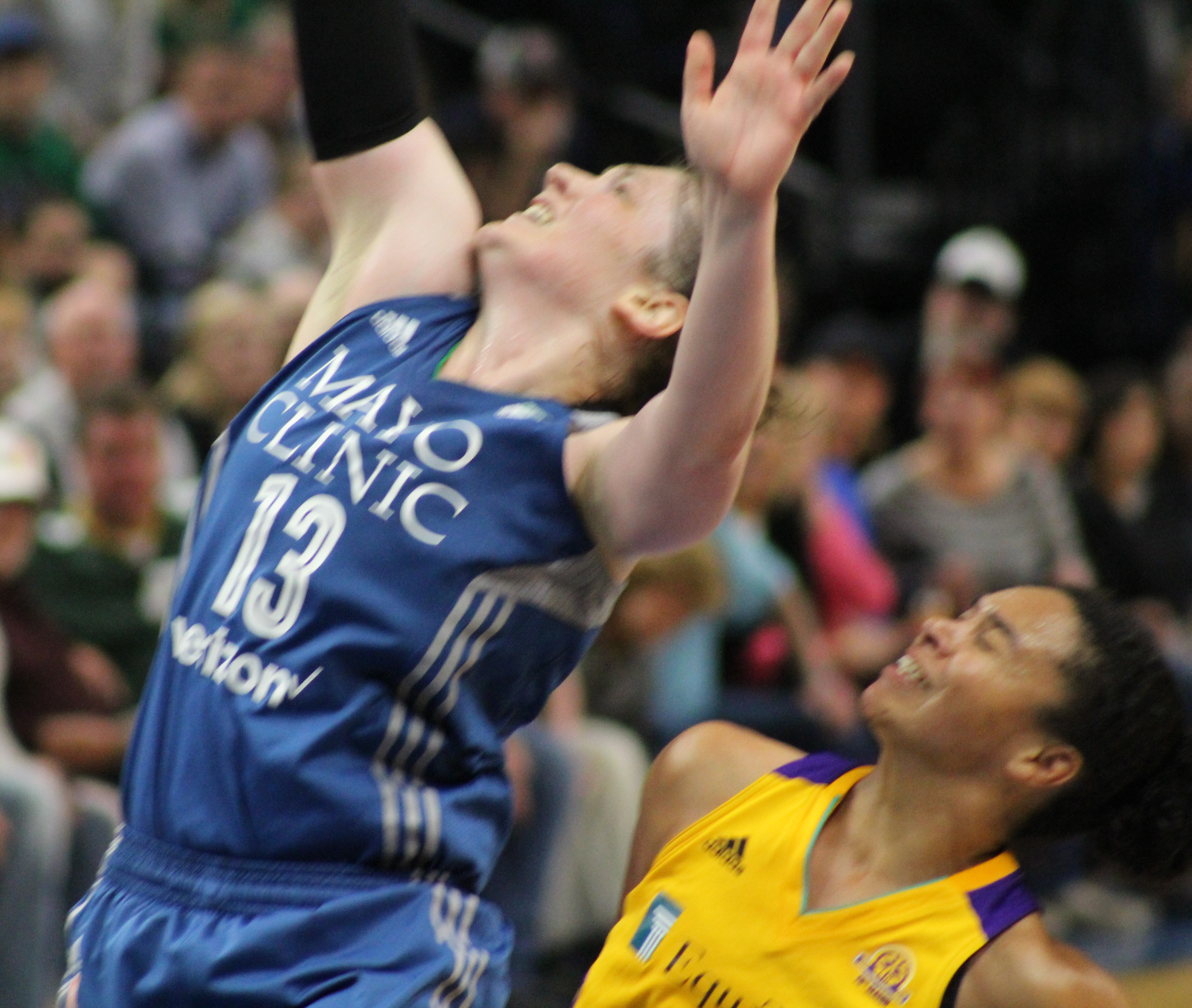 Lindsay Whalen of the Minnesota Lynx (left) and Kristi Toliver of the Los Angeles Sparks (right)